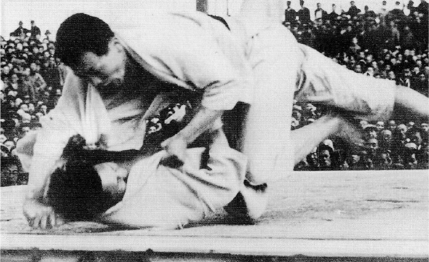 Japanese judoka, Yasuichi Matsumoto(over) and Tokuji Ito(under), at the final of All-Japan Judo Championships in 1948.